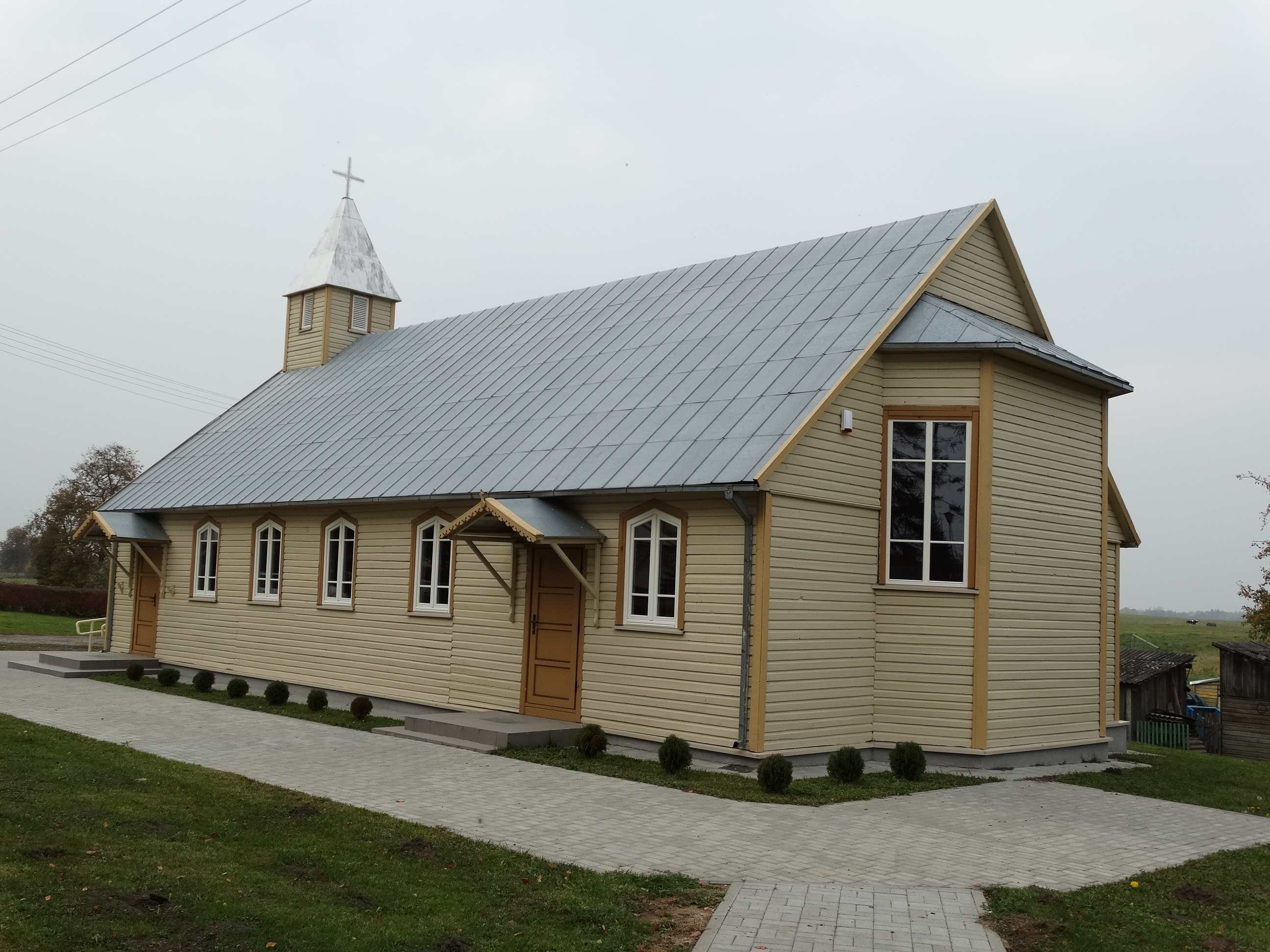 Saint Roch Church, Akmenynai, Kalvarija Municipality, Lithuania